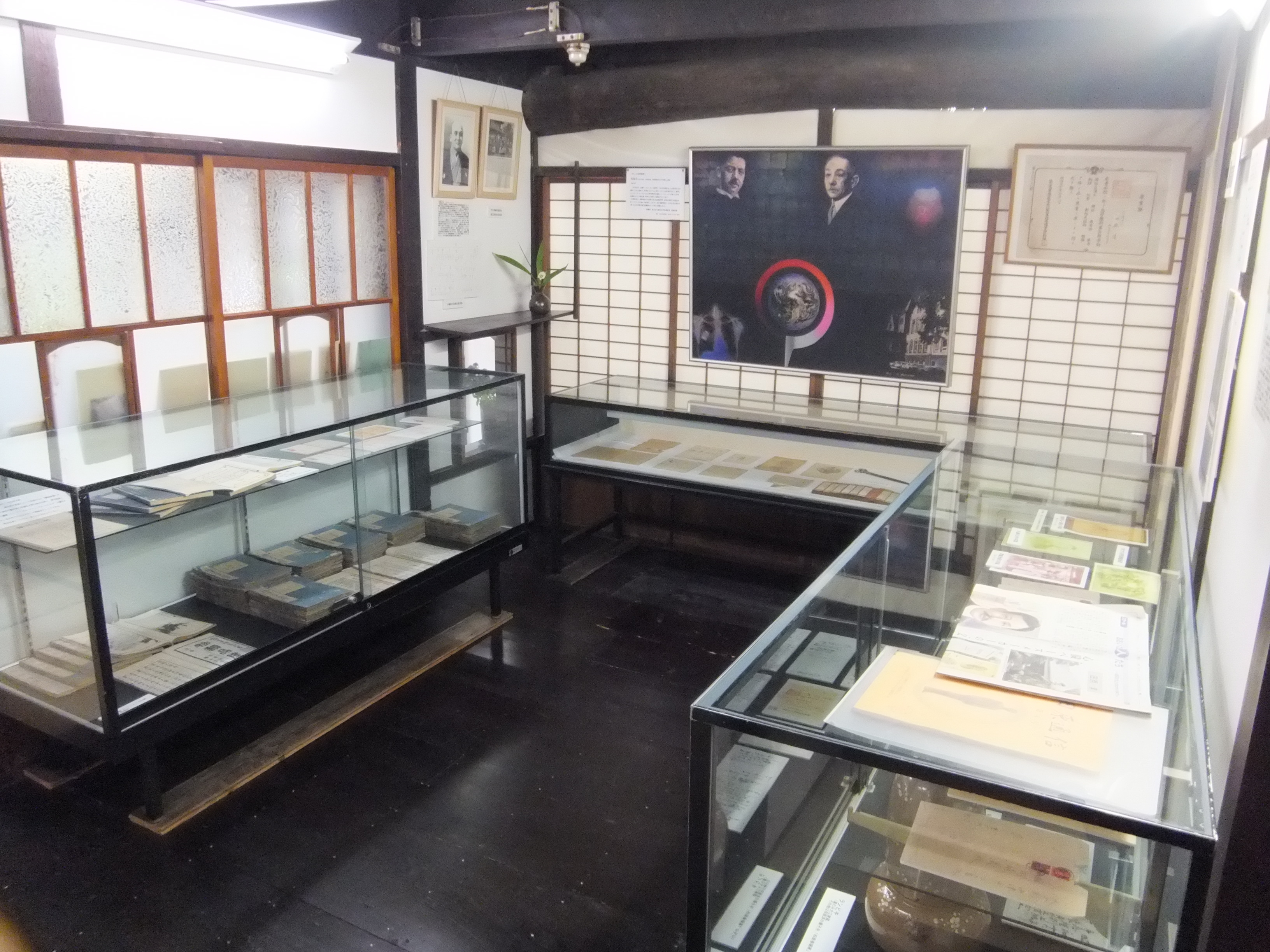 Corner with memorabilia of the Japanese pathologist Sunao TAWARA (1873-1952) in the Oe-Medical Archive (City of Nakatsu, Oita Prefecture, Japan). Tawara discovered the atrioventricular conduction system (atrioventricular node) of the mammalian heart.